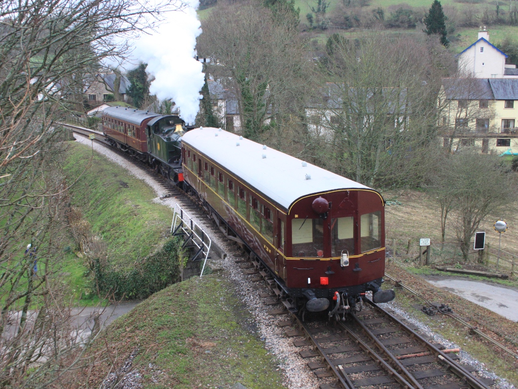 Great Western Railway 4575 Class moves its auto train into the sididngs at Buckfastleigh on the South Devon Railway.